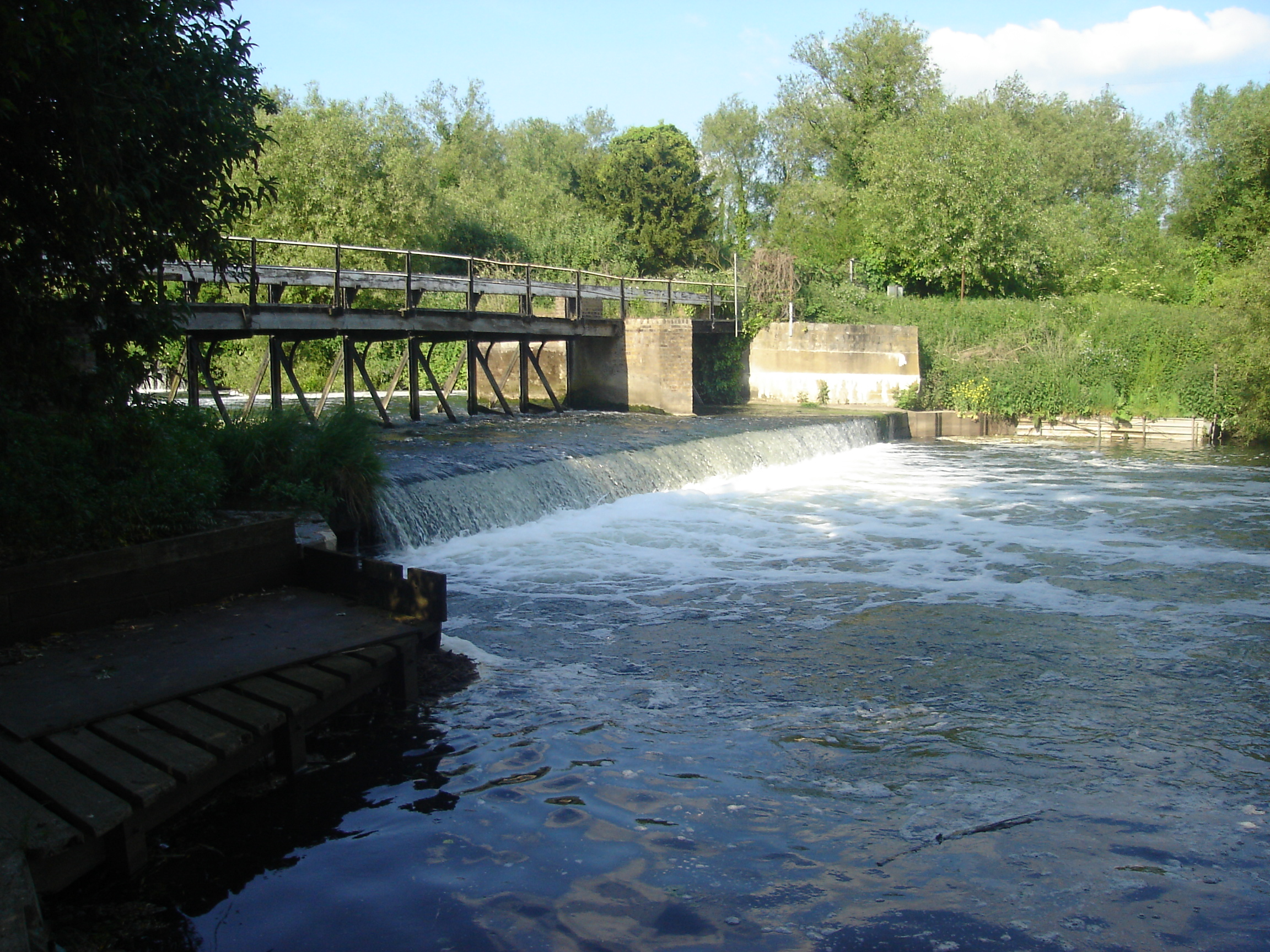 Picture of Kings Weir,Essex